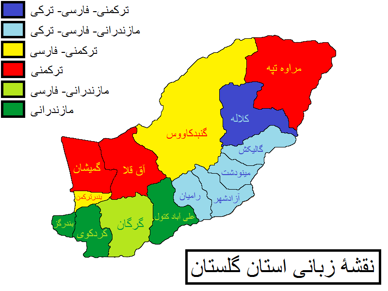 Languages in Golestan Province